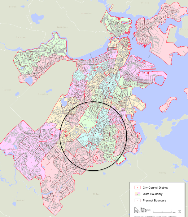 Boston City Council District 4 indicated on map of Boston "City Council Districts. 2012 Approved Plan. Last update 12/2012. 34 x 44"." Massachusetts, USA.